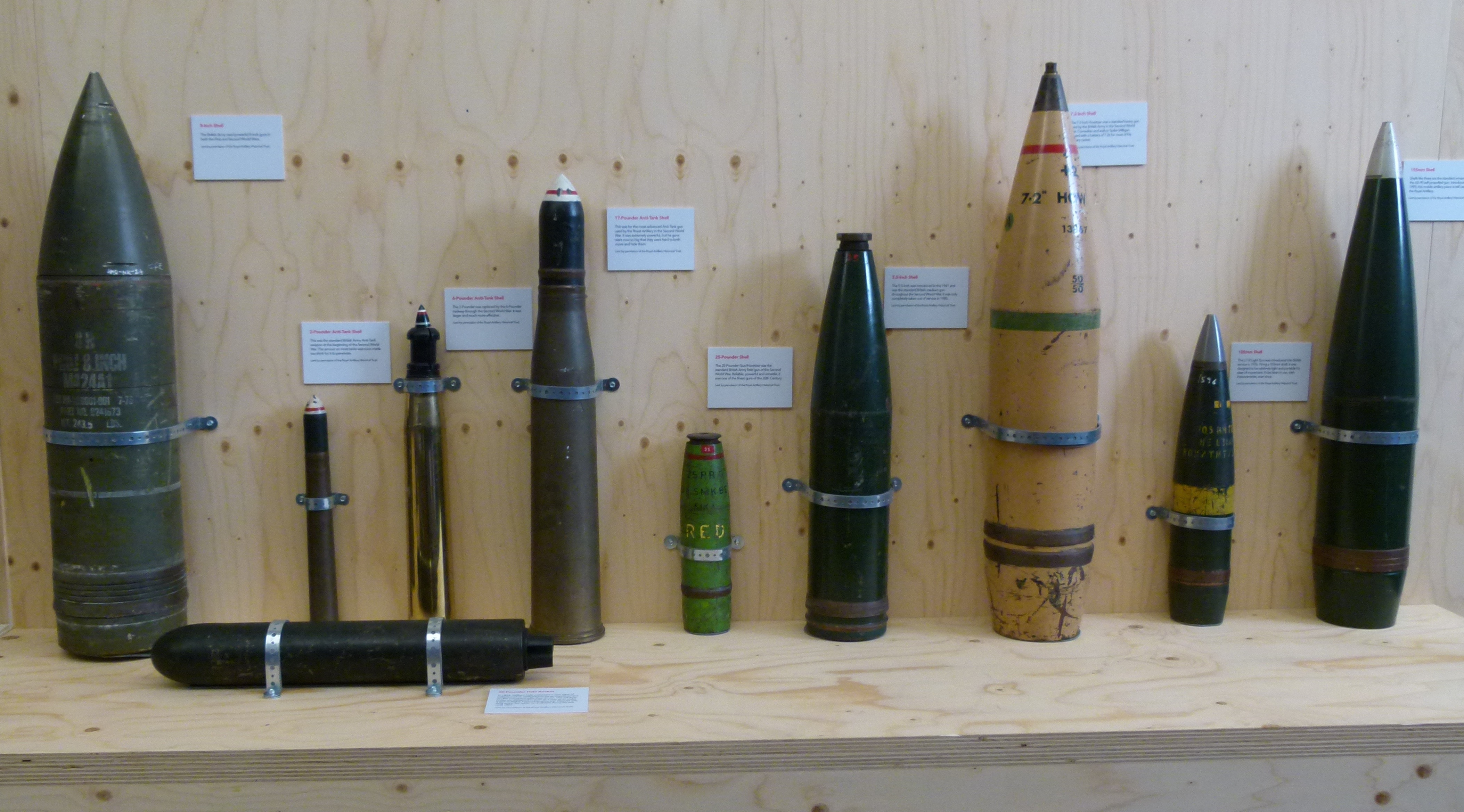 Various shells, as used by the Royal Artillery in the 20th c. Collection of the Royal Artillery Historical Trust. On loan to a semi-permanent exhibition dedicated to the Royal Artillery and Royal Military Academy in Greenwich Heritage Centre, Woolwich, south east London, UK.